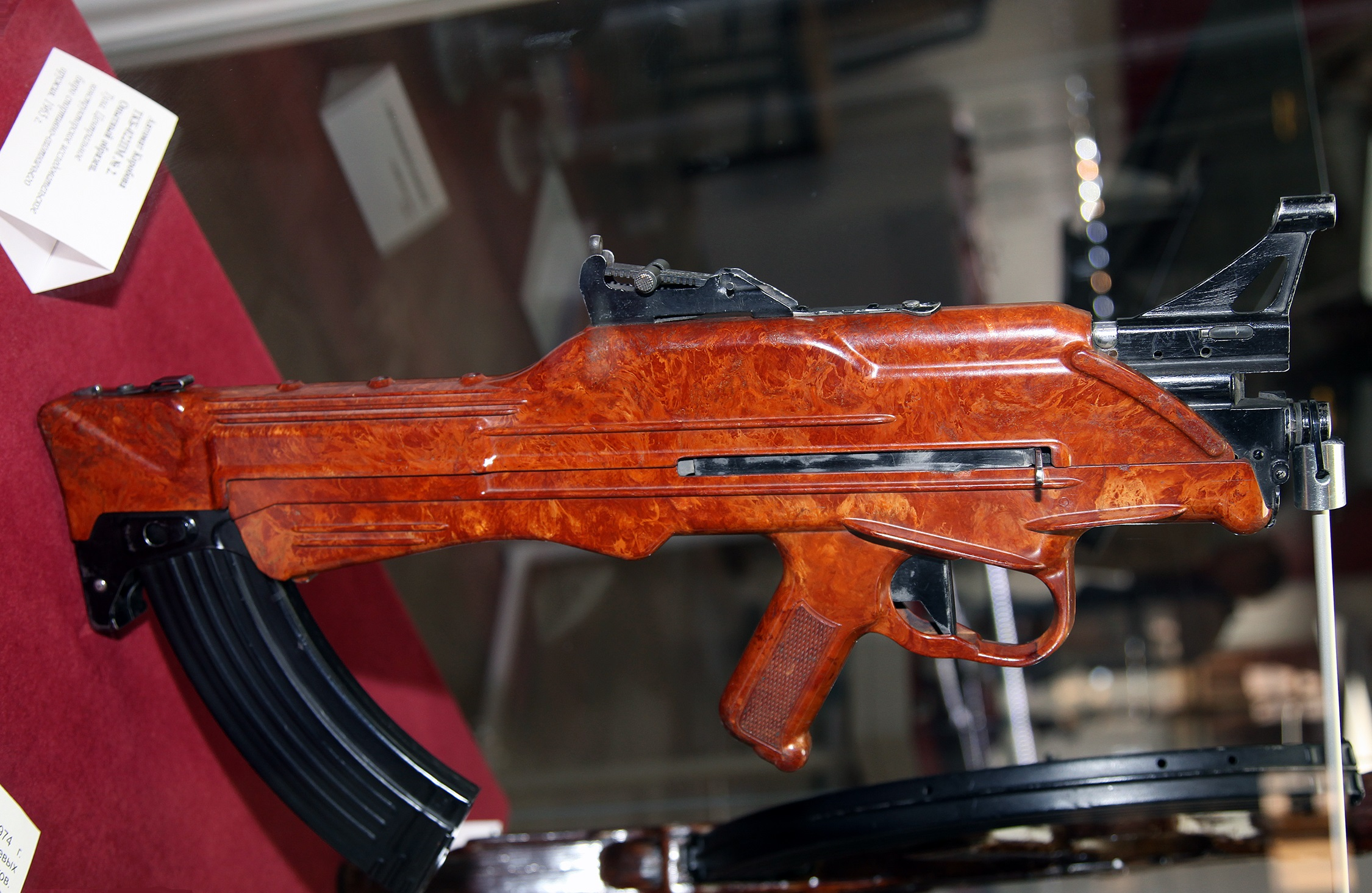 TKB-022PM Korobov assault rifle at Tula State Arms Museum.